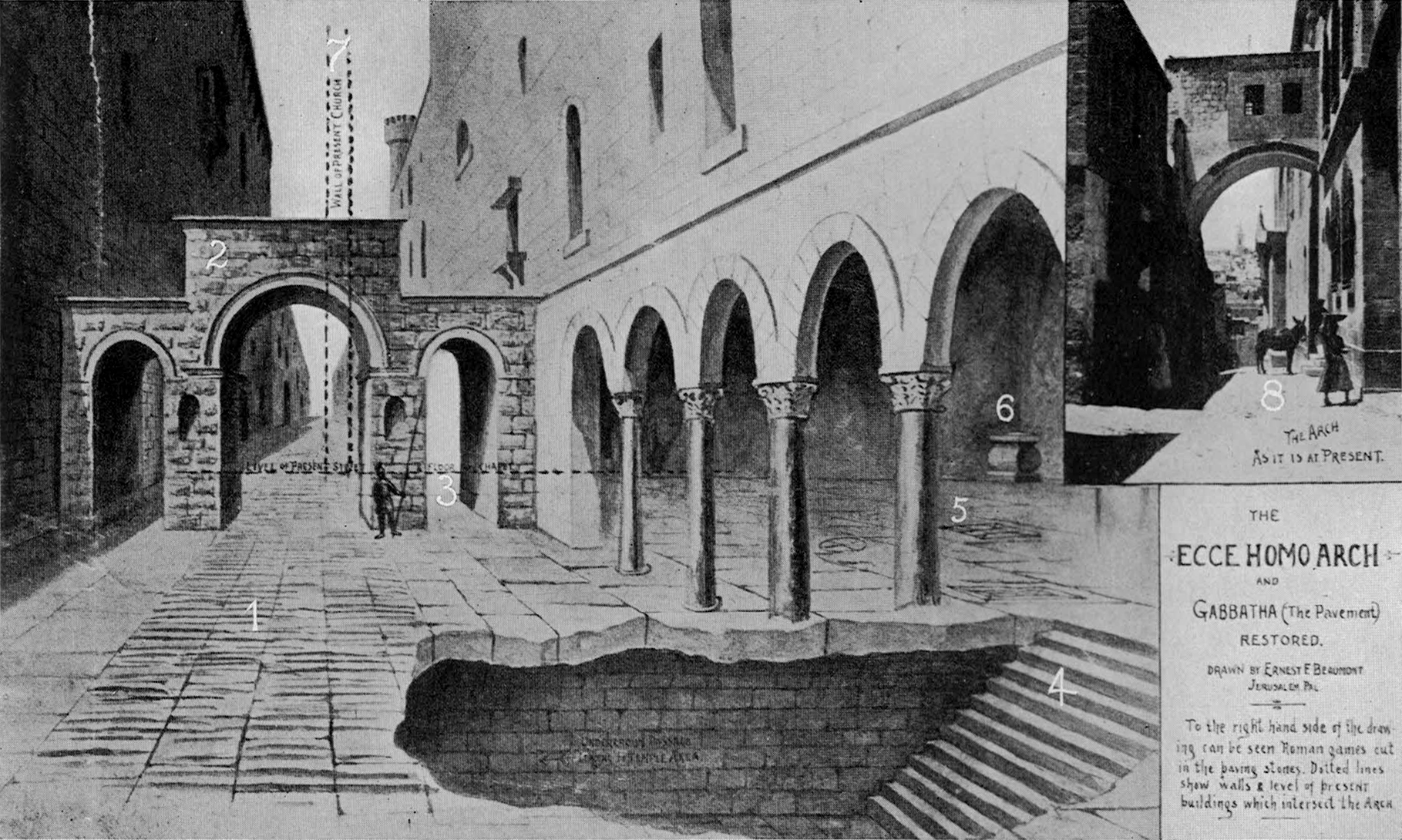 The "photograph" shows the Roman street (1) and triple arch (2), with a dotted line (3) fixing the present street level and the stairs (4) leading down to a covered way by which ... troops could be sent from the fortress Antonia to the court of the temple. The pavement is cut with marks (5) for games the Roman soldiers played. In the corner is the pedestal or prophet's stone (6) from which Pilate possibly addressed the excited Jews. The upright dotted lines (7) show the section of the arches now built into the convent chapel. At the side is shown the arch as it spans the present street (8)